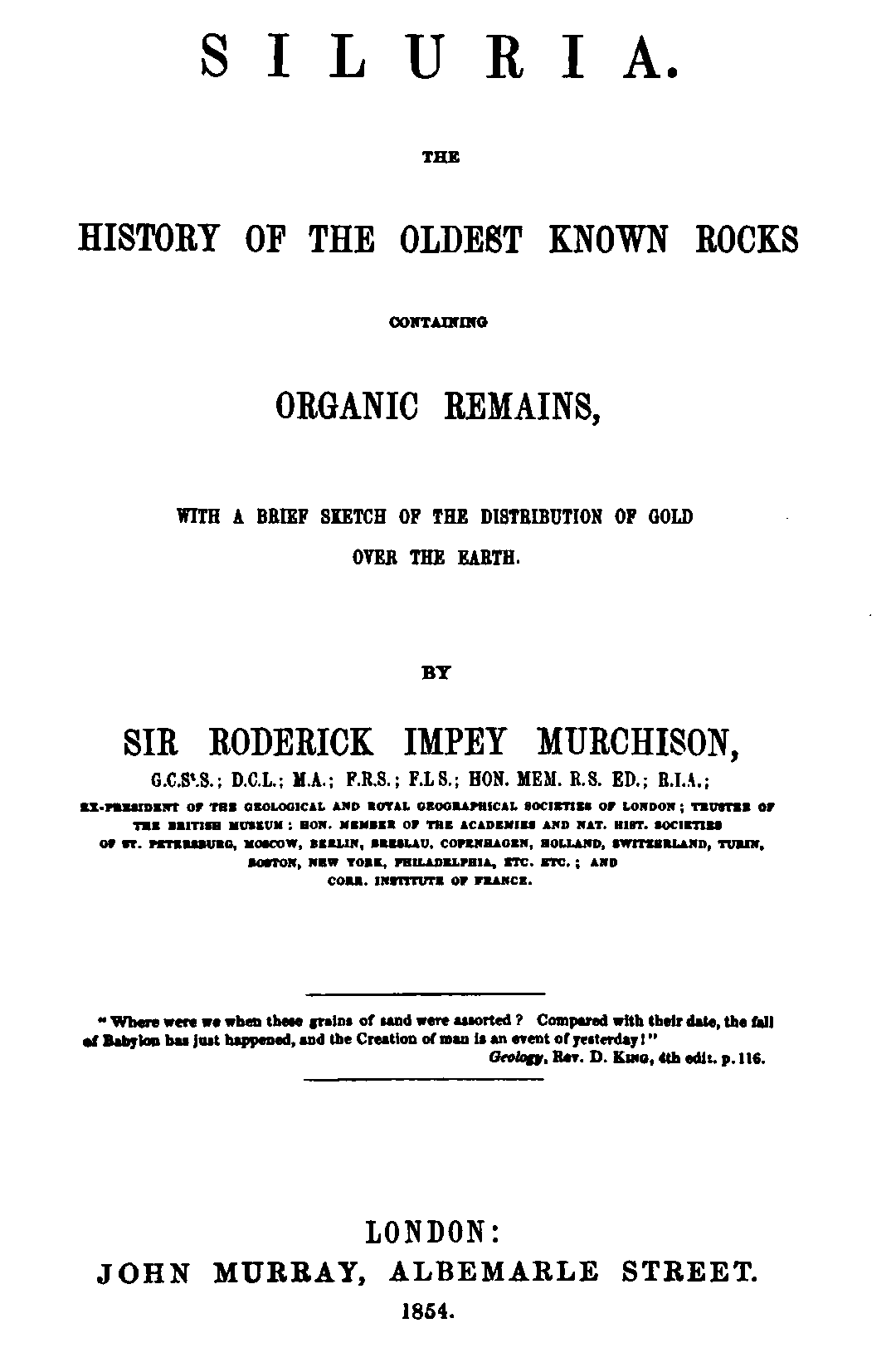 Title page of Roderick Murchison's book Siluria